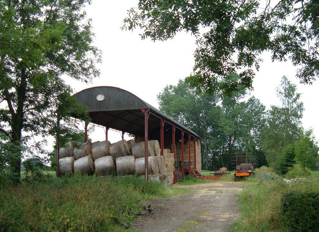 Lodge Farm, Oxmoor Lane. This attractive dutch barn is at the back of the farm about one mile north of the hamlet of Biggin.